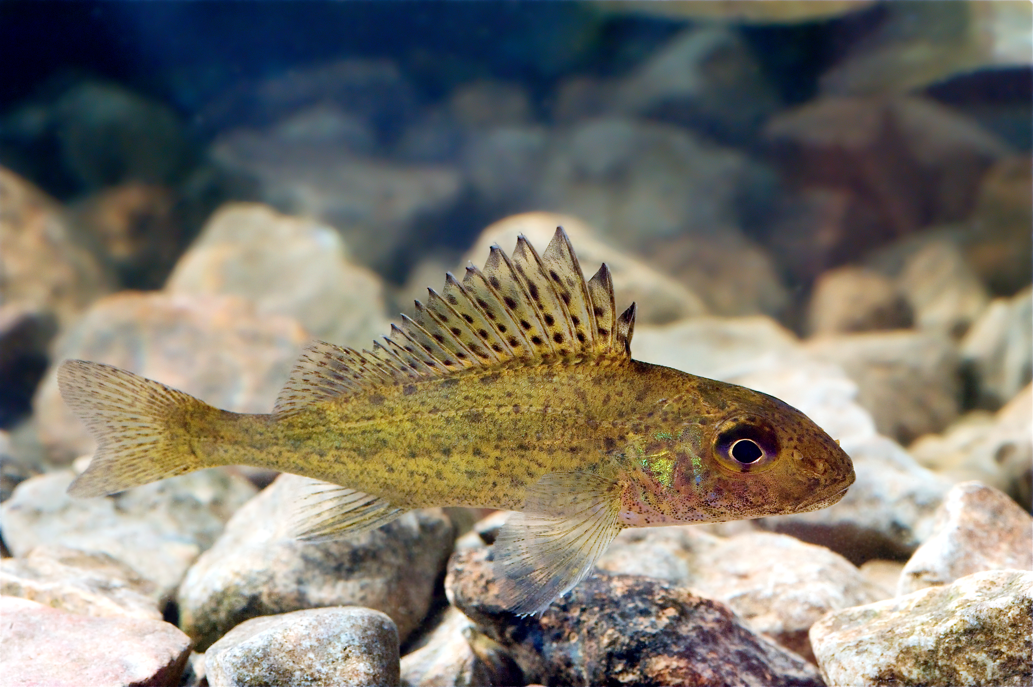 Eurasian ruffe (Gymnocephalus cernuus) in the Pärnu River, Estonia.